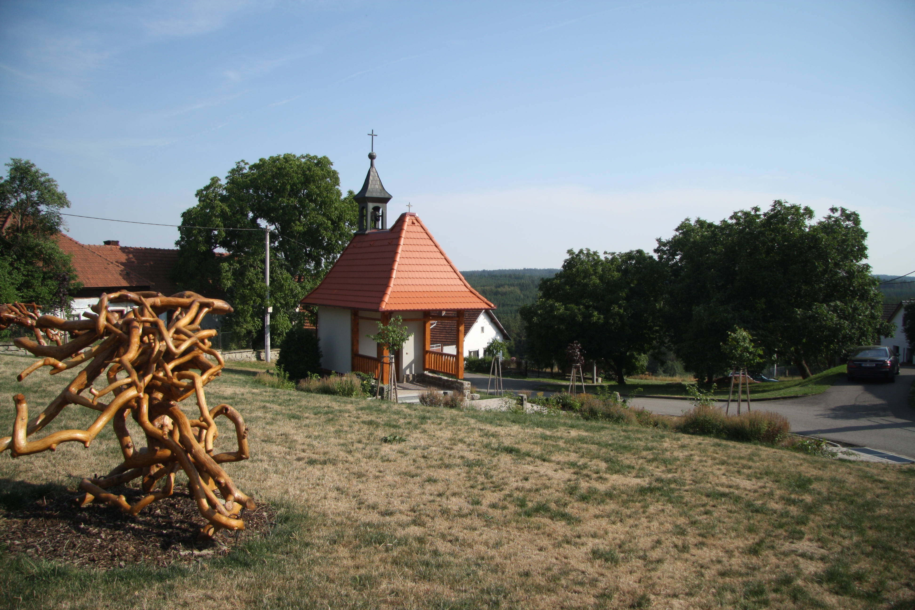 Village center and chapel of Saint George in Osové, Žďár nad Sázavou District.